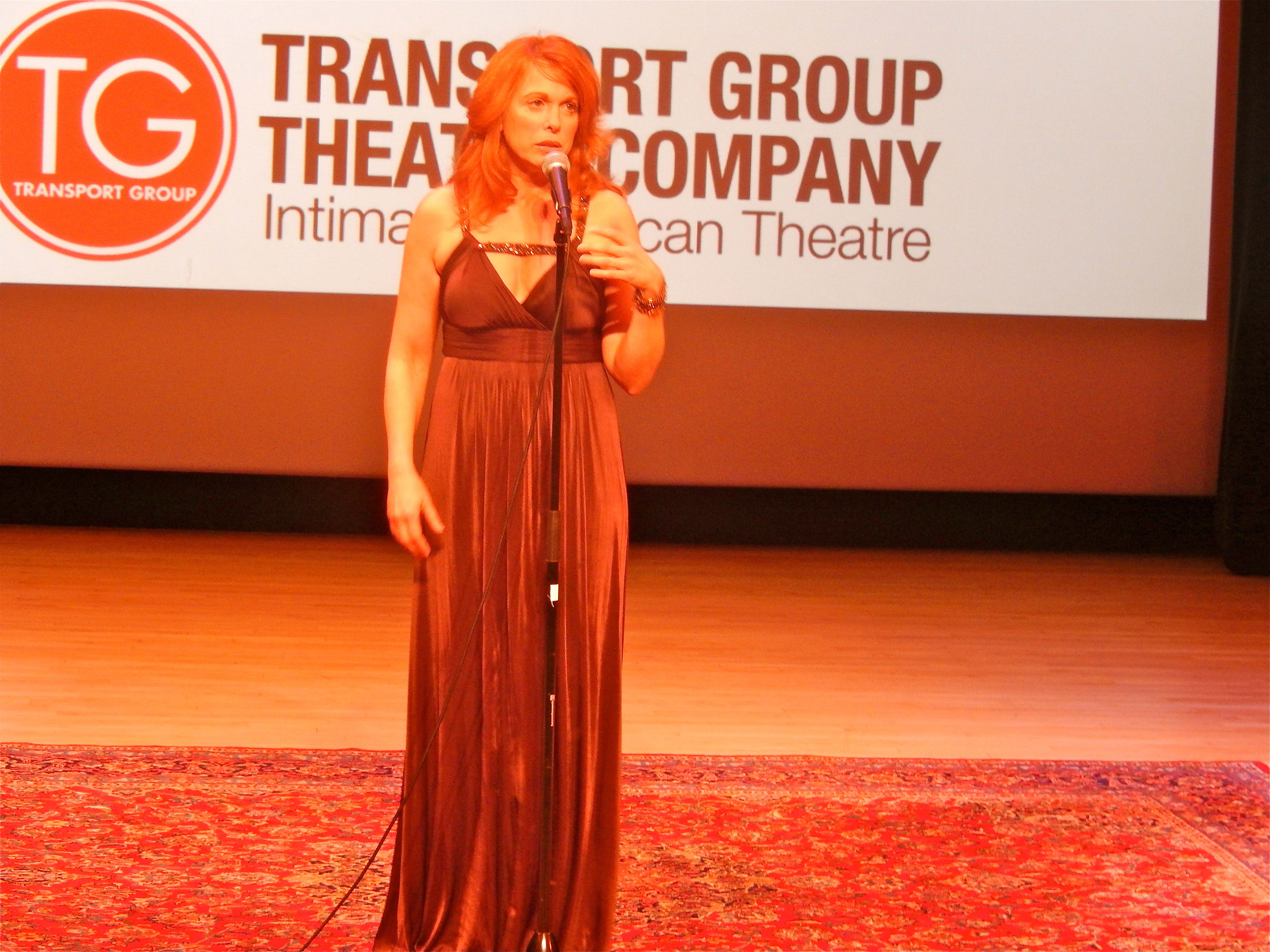 American actress Carolee Carmello at 'Gimme A Break!' Transport Group Gala 2013. The Asia Society. NYC. 12.9.13.